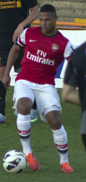 Serge Gnabry of Arsenal attacks the Liverpool U-21 defence